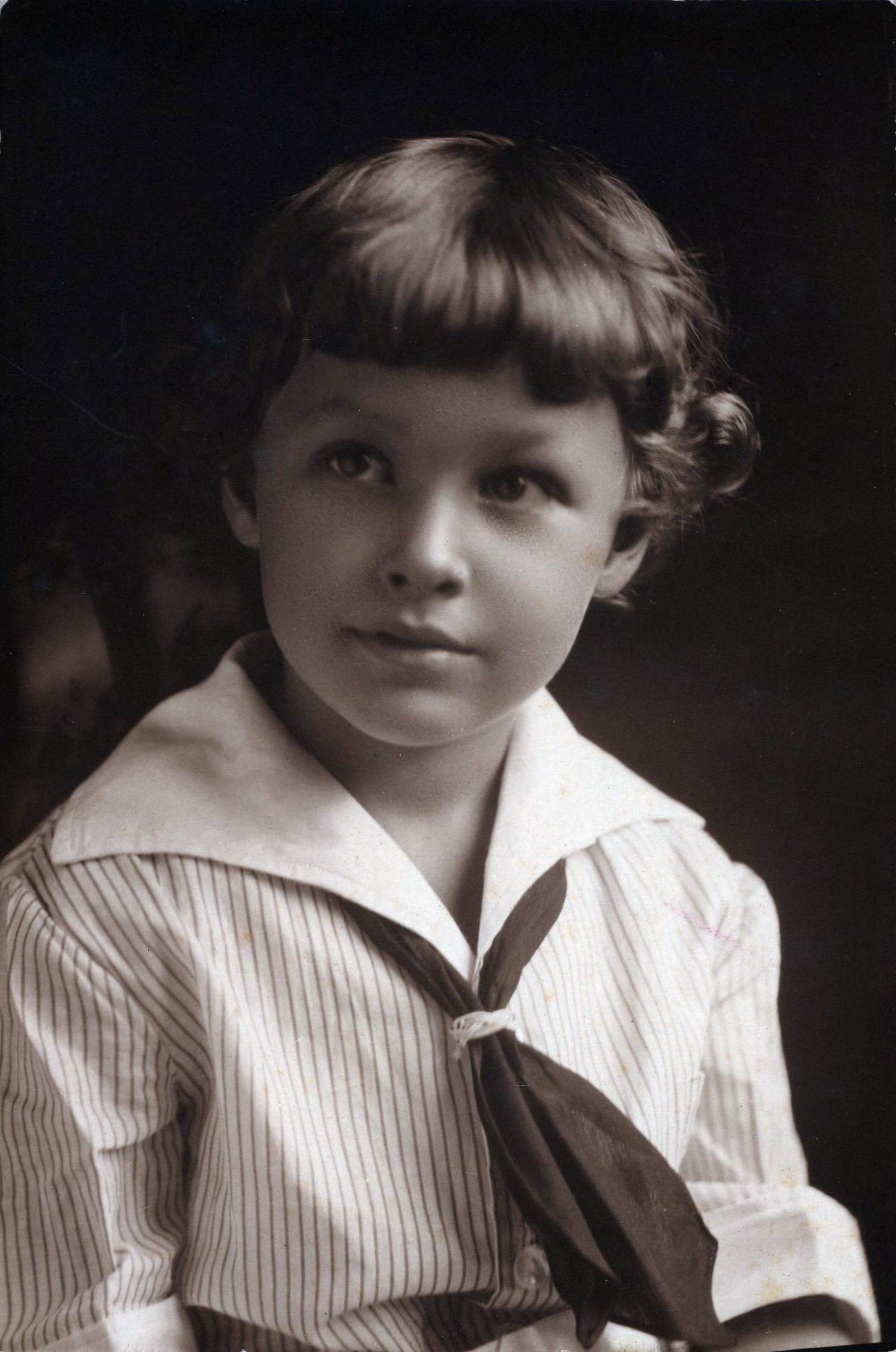 Photograph of Tennessee Williams inscribed "Tom at 5 1/2 living in Clarksdale"